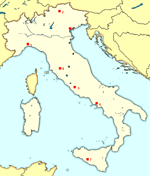 Places the Dutch television programme Talenwonders! In Italië visited in Italy